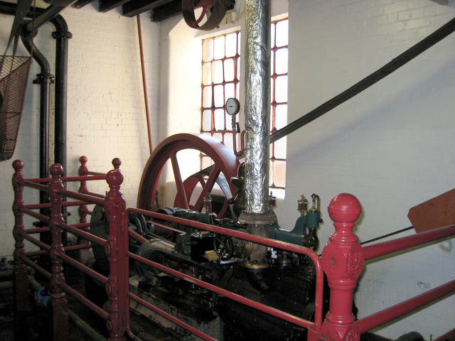 The Brewery, Hook Norton, Oxfordshire: stationary steam engine. This steam engine was installed in 1899 and is believed to be the last in country still in use for its original purpose. Through line shafts and gearing it powers pumps and machinery used in the brewing process and is also used to operate lifts and hoists within the brewery. Buxton & Thornley Limited of Burton on Trent supplied the engine on 18 October 1899 and cost of £175.00. It is a single horizontal cylinder engine able to develop 25hp. The main drive belt seen in the picture is believed to be the original installed at the same time as the engine.